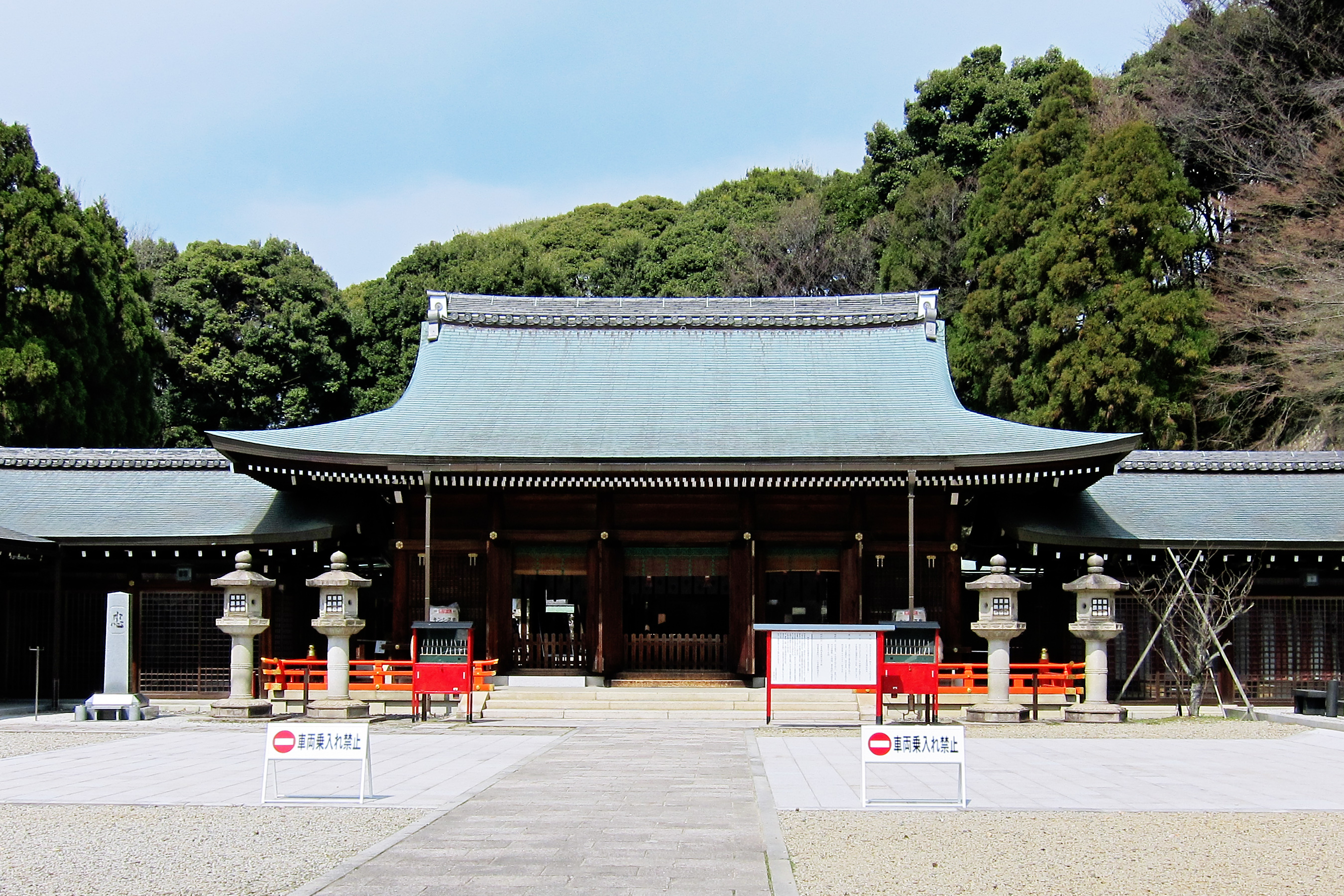 Kyoto Ryozen Gokoku Shrine (京都霊山護国神社), in Kyoto, Kyoto Prefecture, Japan.